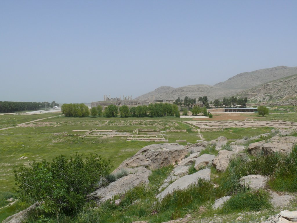 Downtown houses, South of the Terrace, Persepolis, Iran